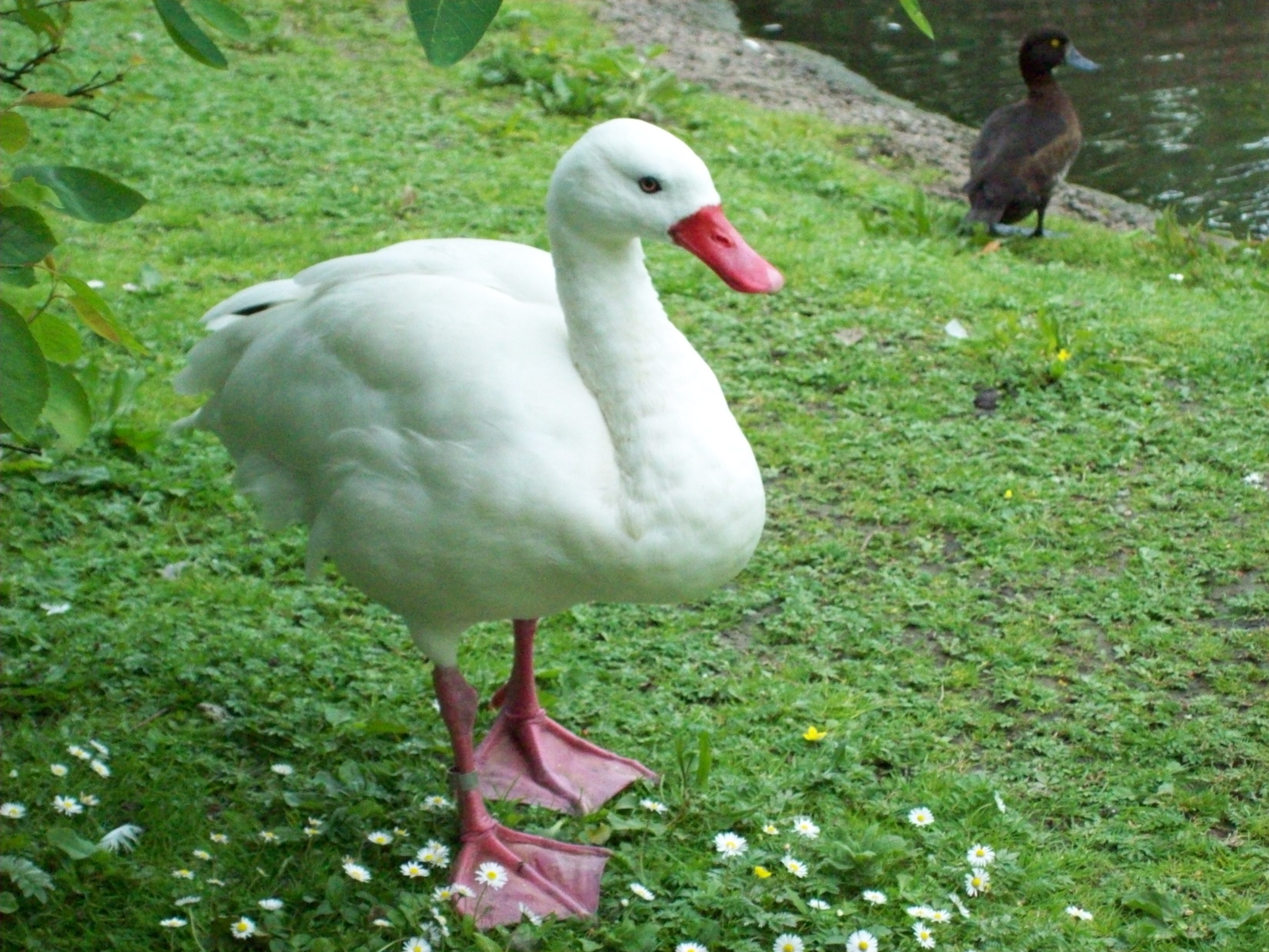 This photo of a bird was taken in 2008 while walking through the park at Llanelli, Carmarthenshire.